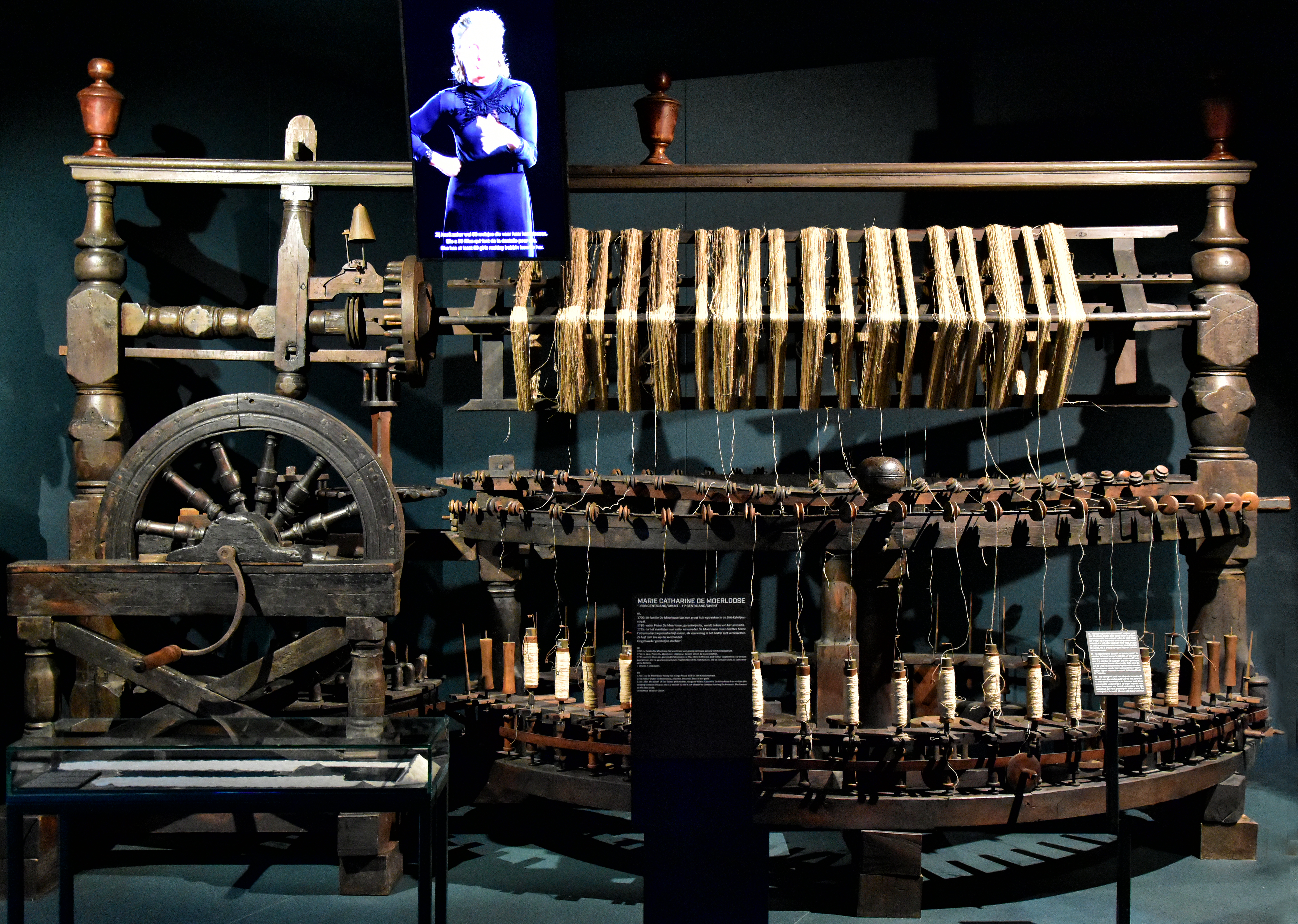 Twine mill at the Industriemuseum, Ghent (Belgium) This photo of movable heritage has been taken in the Flemish Region